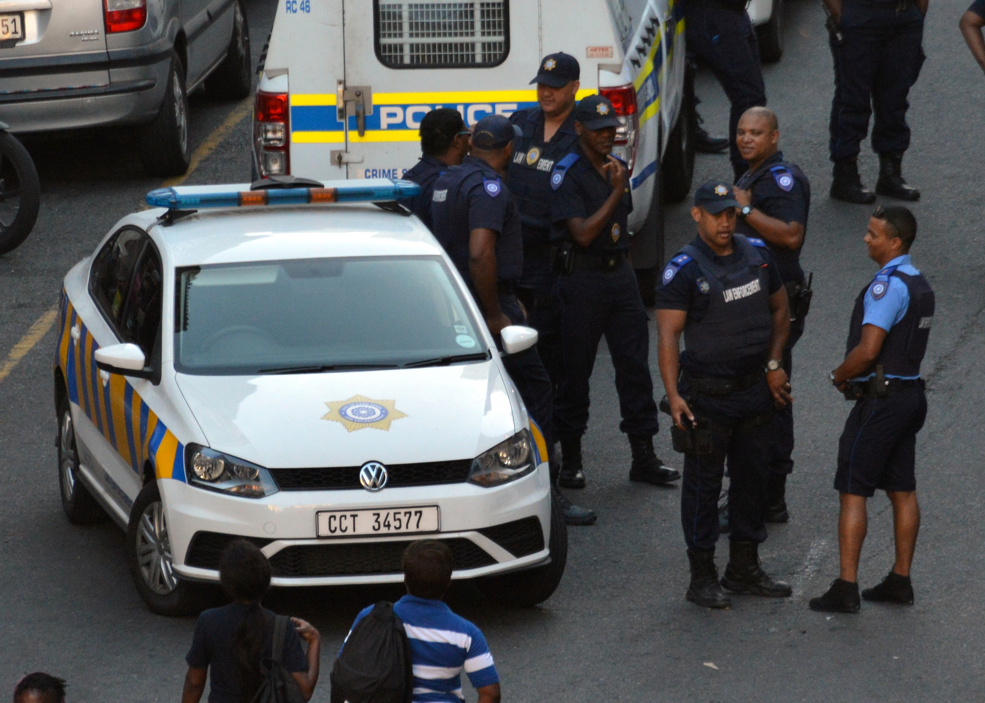 A group of Cape Town Metropolitan Police officers in various uniforms with a Metro Police vehicle.